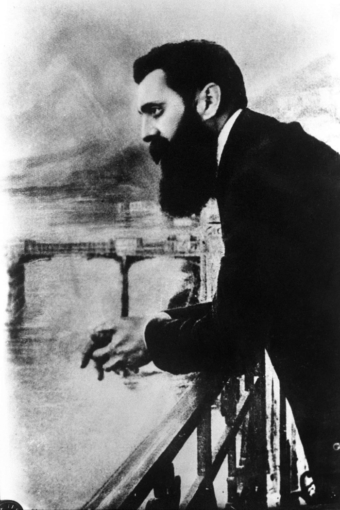 Theodor Herzl observing the Rhine from the balcony of Hotel Les Trois Rois during the Fifth World Zionist Congress in 1901 in Basel.